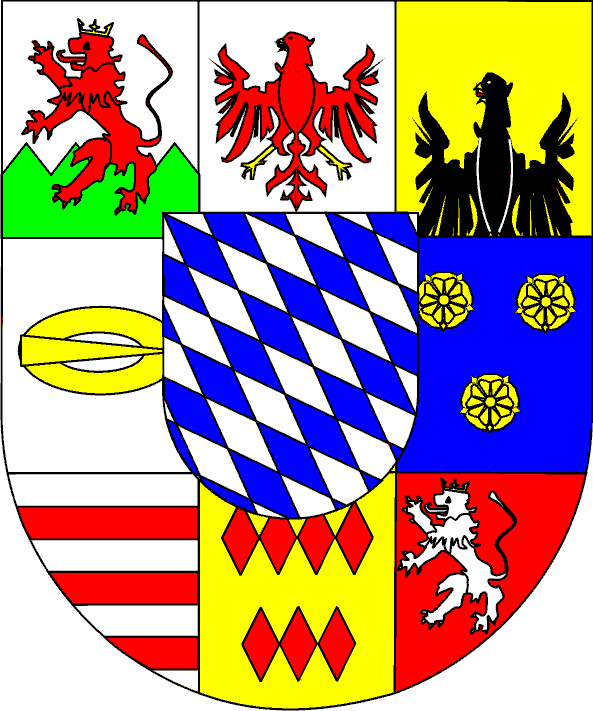 coat of arms